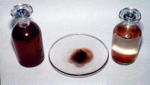 The photograph was taken during our study of the red rain phenomenon in Kerala and is published in our report.